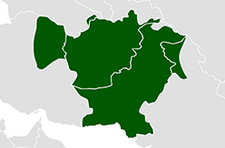 A map of the Durrani Empire in 1747.